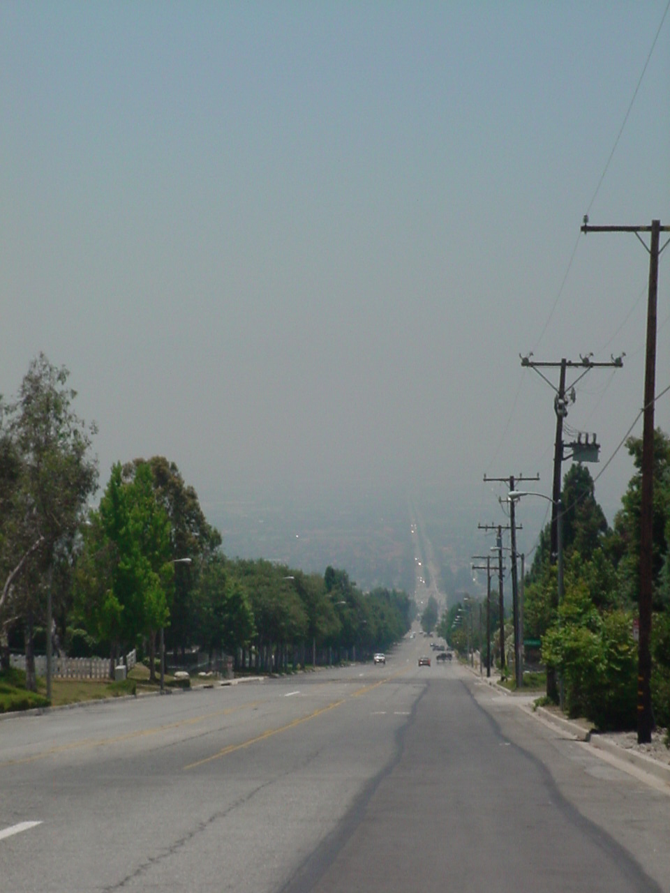 Smoggy haze as seen from the north terminus of Haven Avenue in Rancho Cucamonga (a city in the Inland Empire (California)).